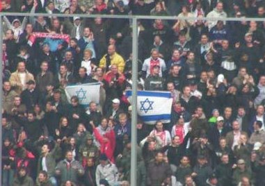 AFC Ajax fans in FC Utrecht stadium